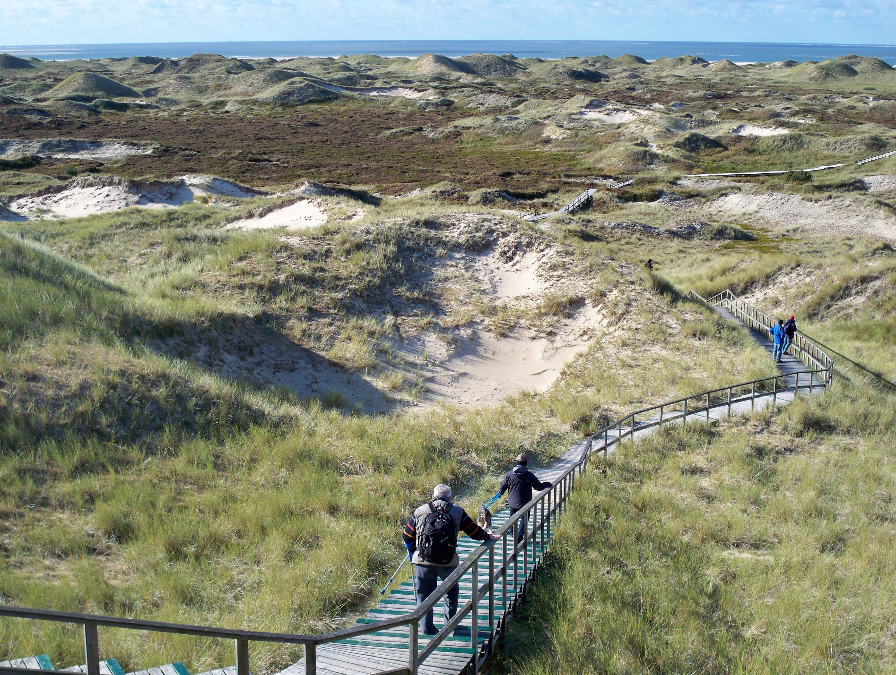 Amrum, nature reserve "Amrumer Dünen" from "A Siatler"